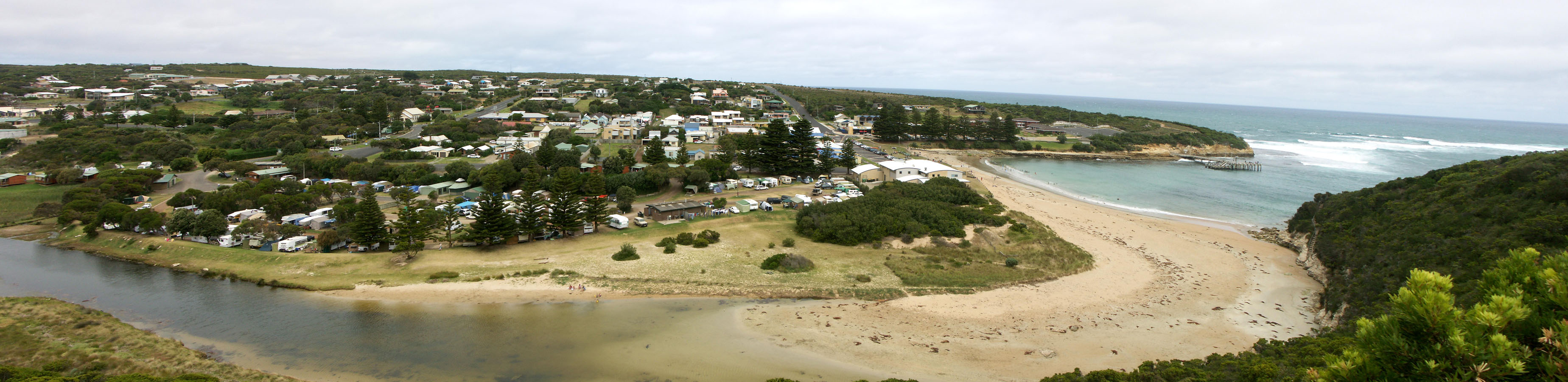 Panoramic view of Port Campbell on the Great Ocean Road, from a viewpoint west of the town